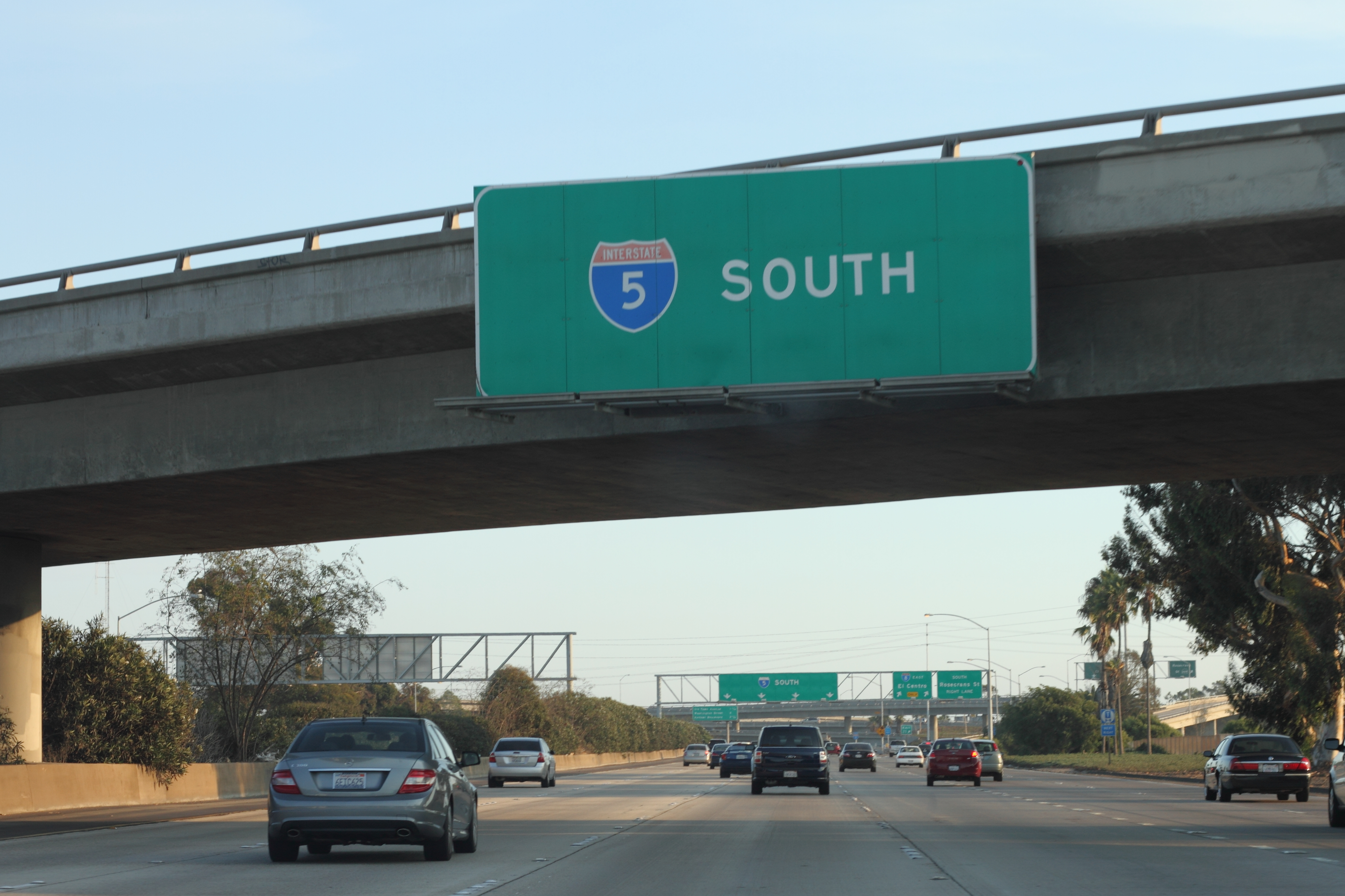 This file shows a sign of Interstate 5 (I-5) South in the San Diego Area, Southern California.